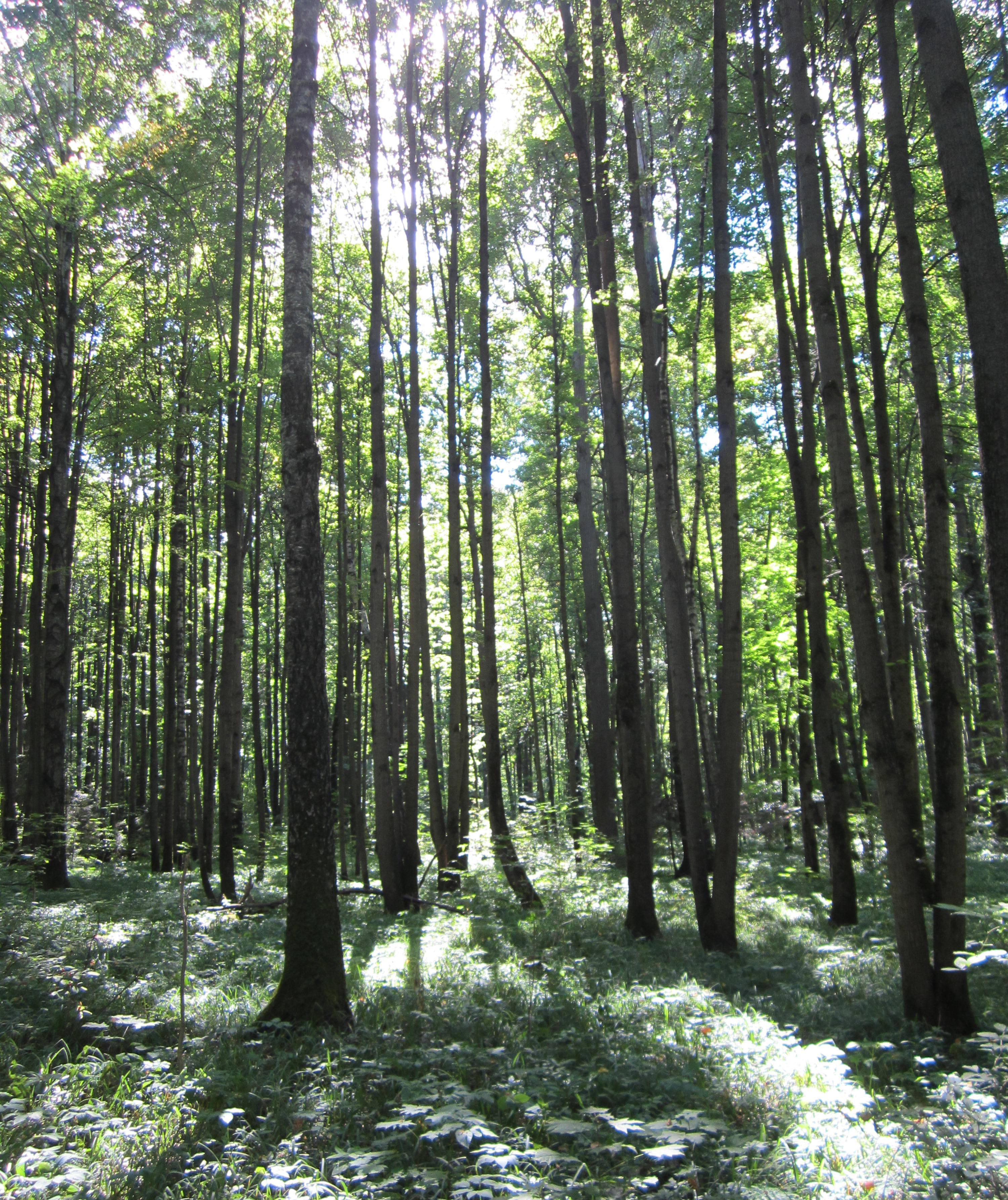 In Losiny Ostrov National Park in August